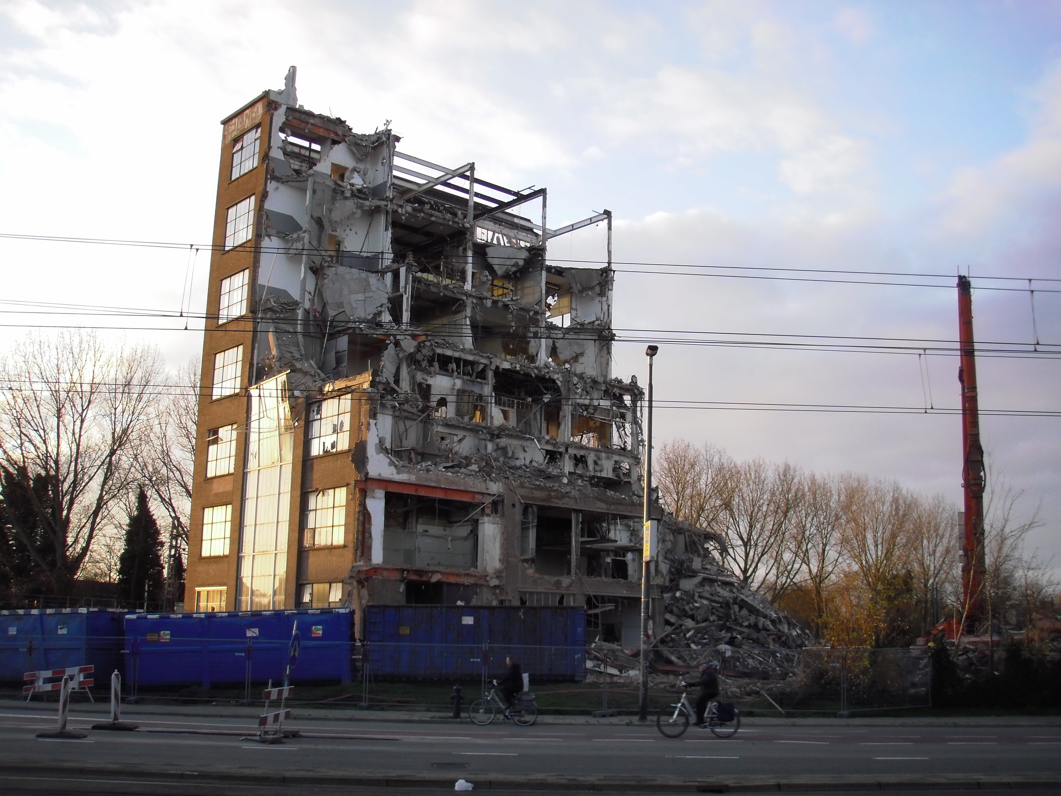 Demolition of Bacinol, a building in Delft, The Netherlands.